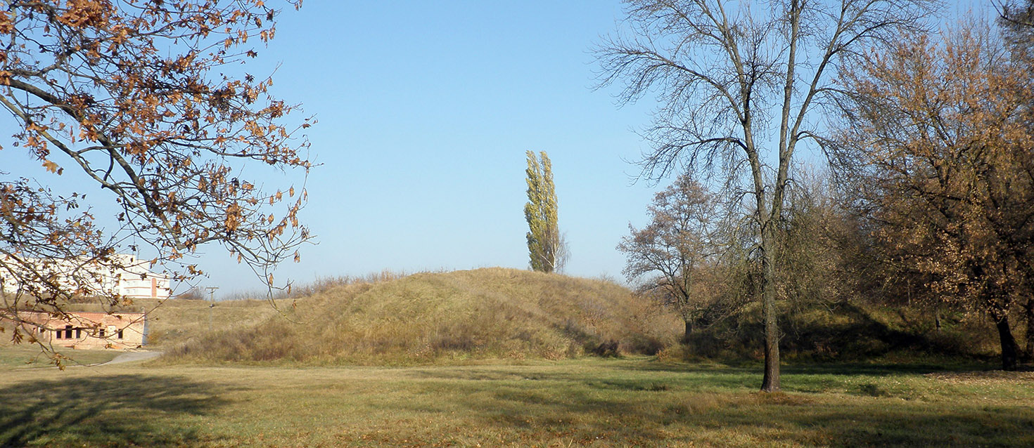 East Fort. (left) Passage inside the fort